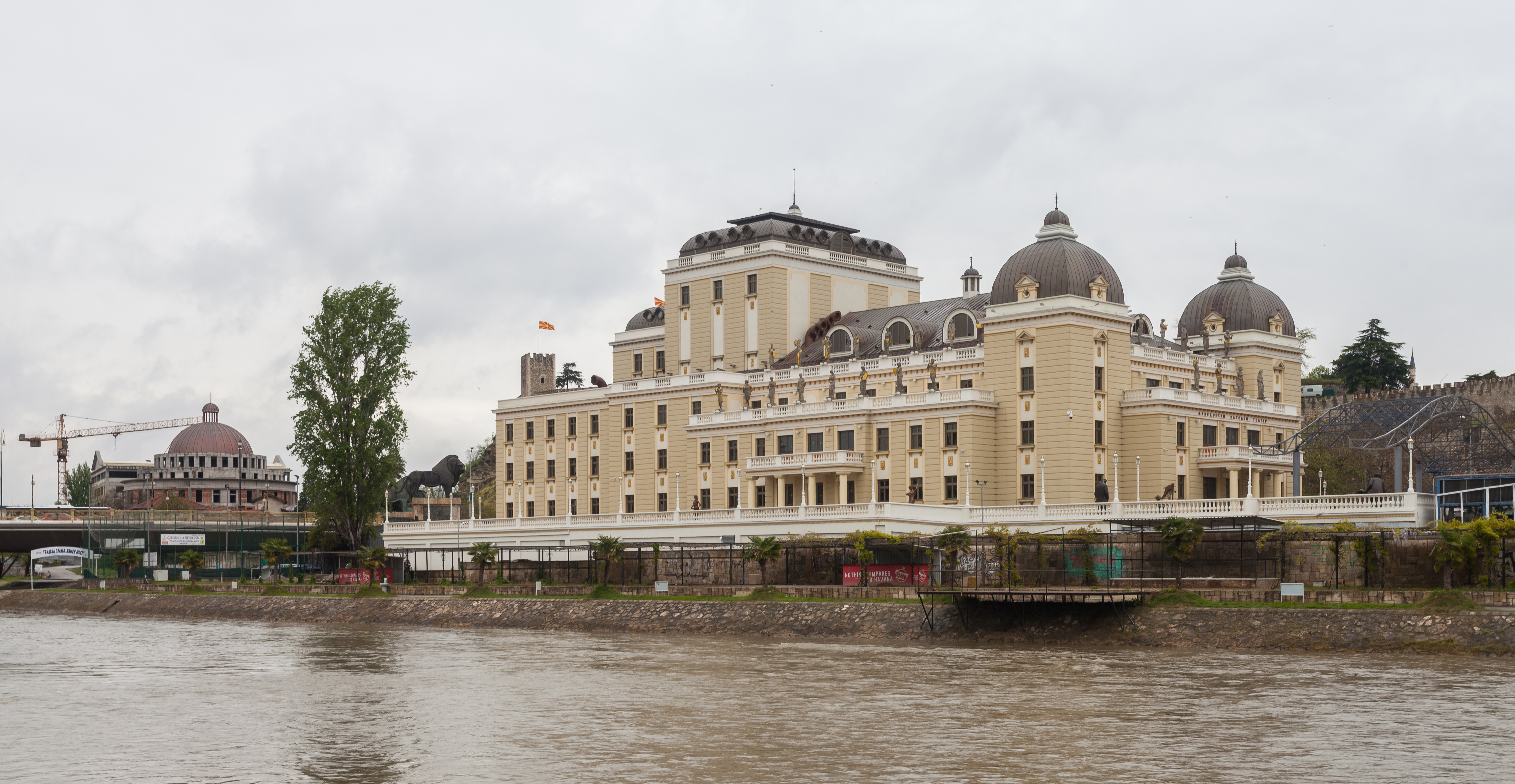 National Theatre, Skopje, Republic of Macedonia